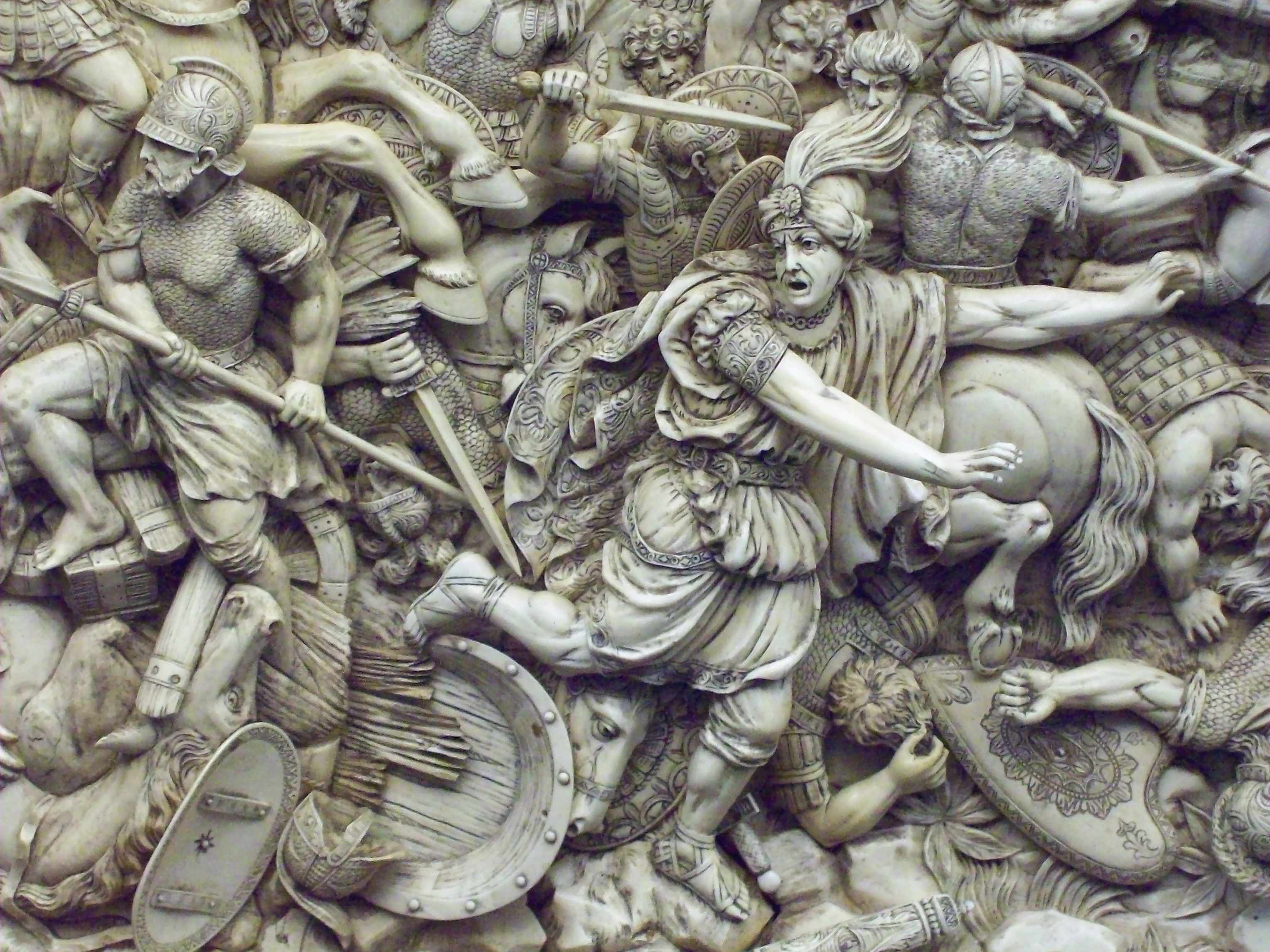 Detail: Darius' flight.